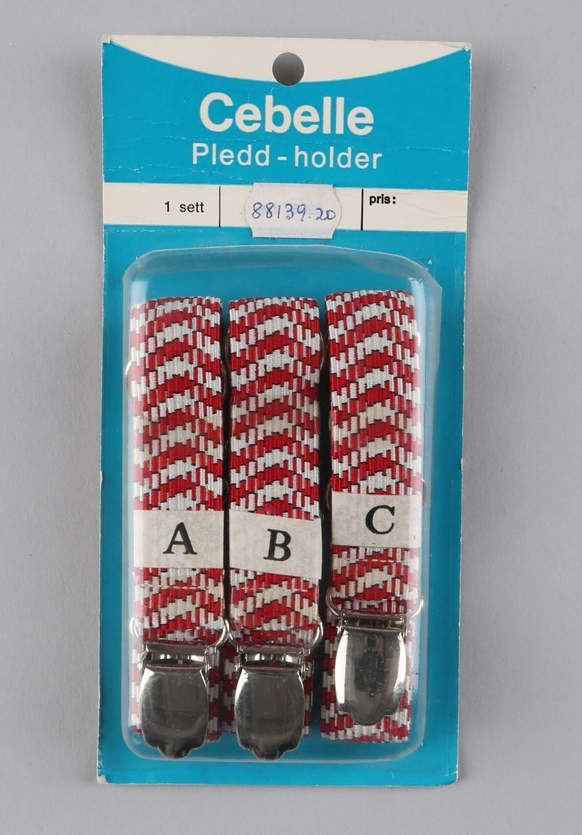 Cebelle blanket holder (elastic strap to fasten a blanket or cover to a sofa, for instance), produced by Oslo Baand & Lidsefabrik in Oslo, Norway Cebelle pledd-holder produsert ved Oslo Baand & Lidsefabrik (object no. NTMT.00842, The Norwegian Knitting Industry Museum).